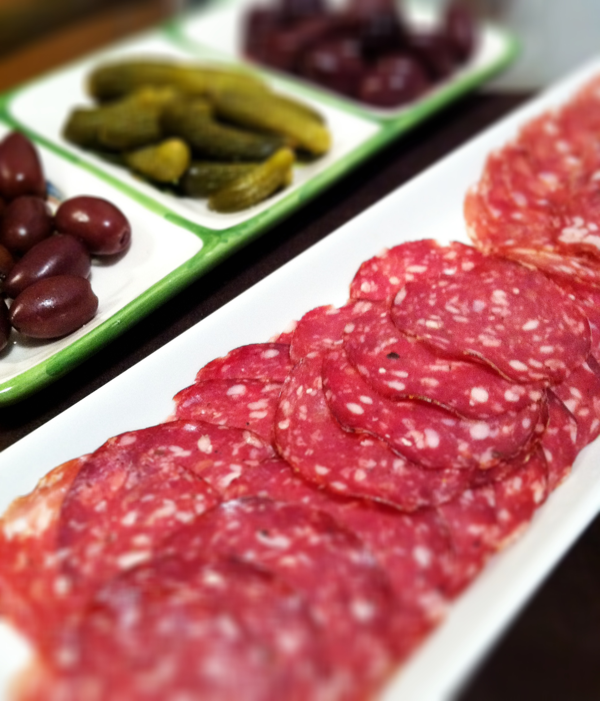 Rosette de Lyon is a cured saucisson or French pork sausage. It is made from leg of pork and usually served in chunky slices.